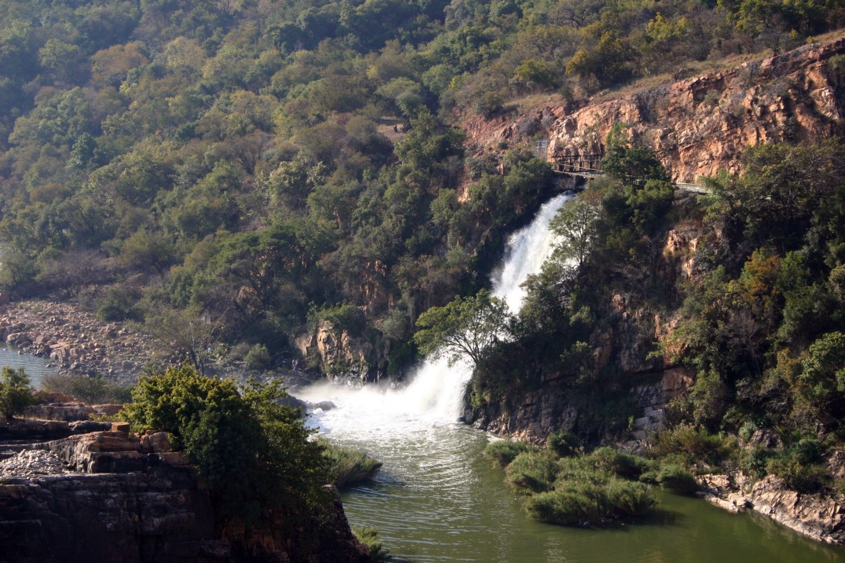 Canal spillway below Hartbeespoort Dam wall in the Crocodile River (West), about 10 km south of Brits and 40 km north of Johannesburg and 30 km west of Pretoria, South Africa